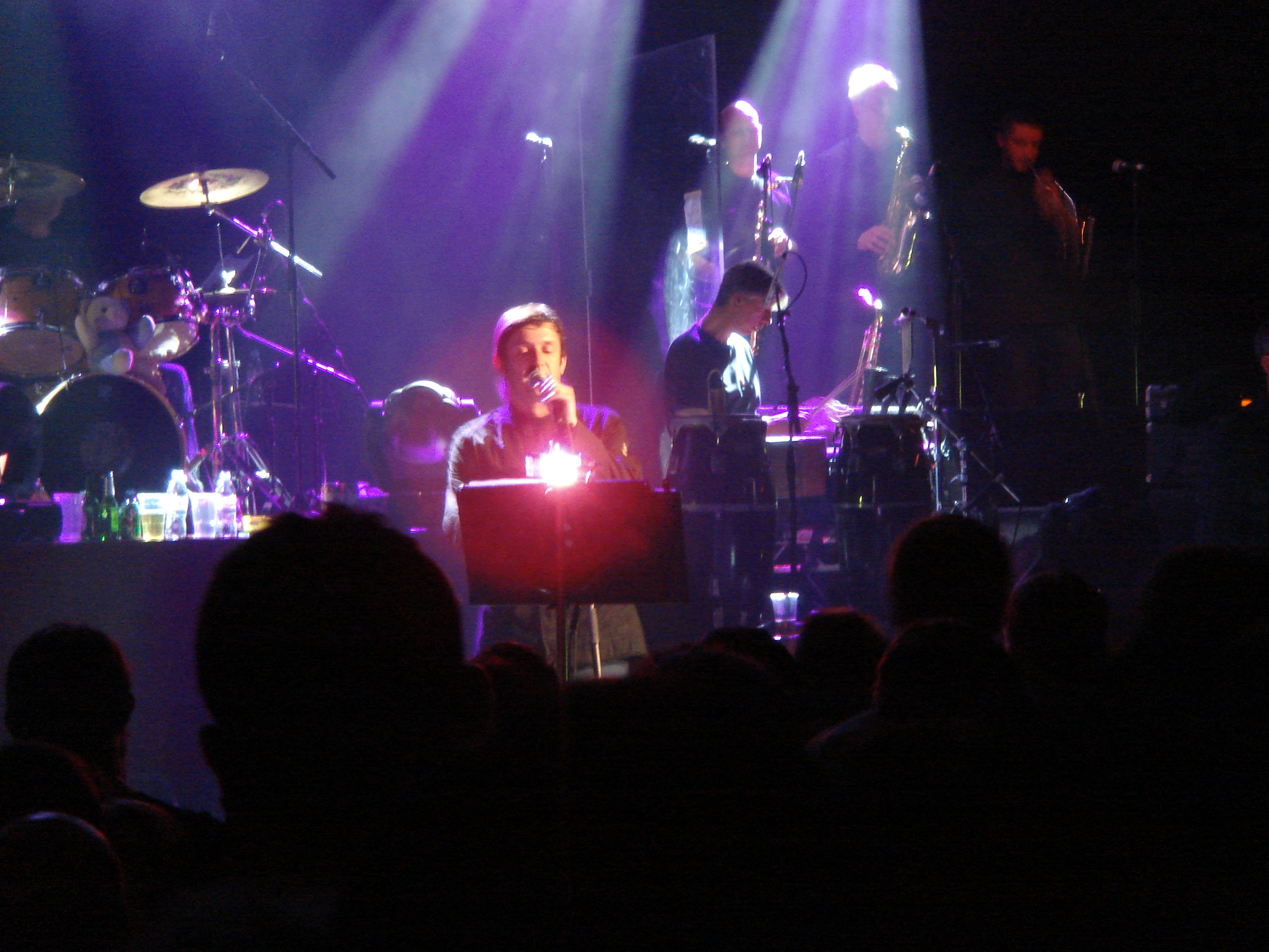 Paul Heaton, lead singer of The Beautiful South, centre stage in concert.